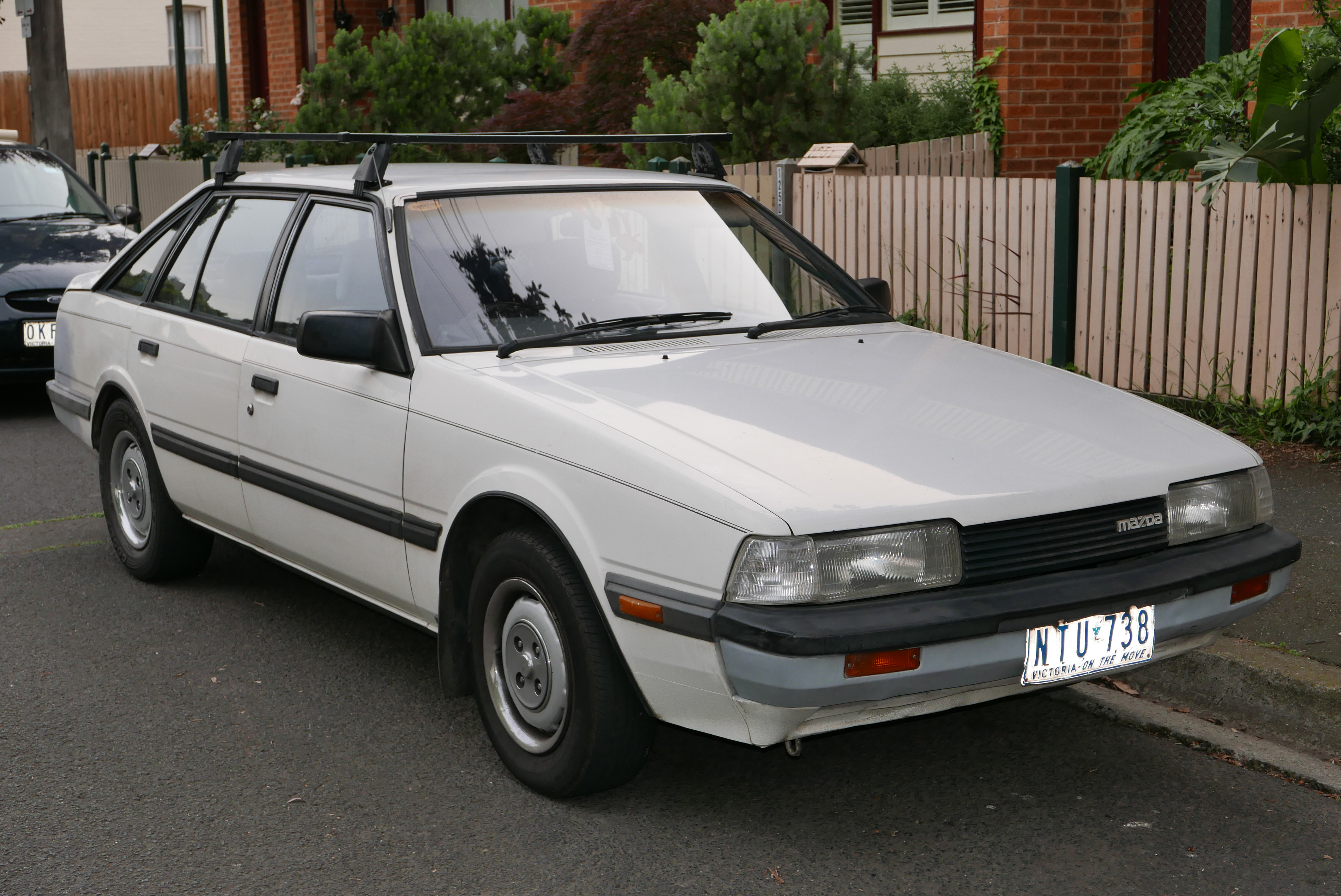 1983 Mazda 626 (GC) Deluxe hatchback. Photographed in Flemington, Victoria, Australia. Vehicle registration enquiry results Jurisdiction Victoria Registration NTU738 Chassis code Not available Engine code FE116194 Compliance date Not available Year of manufacture 1983